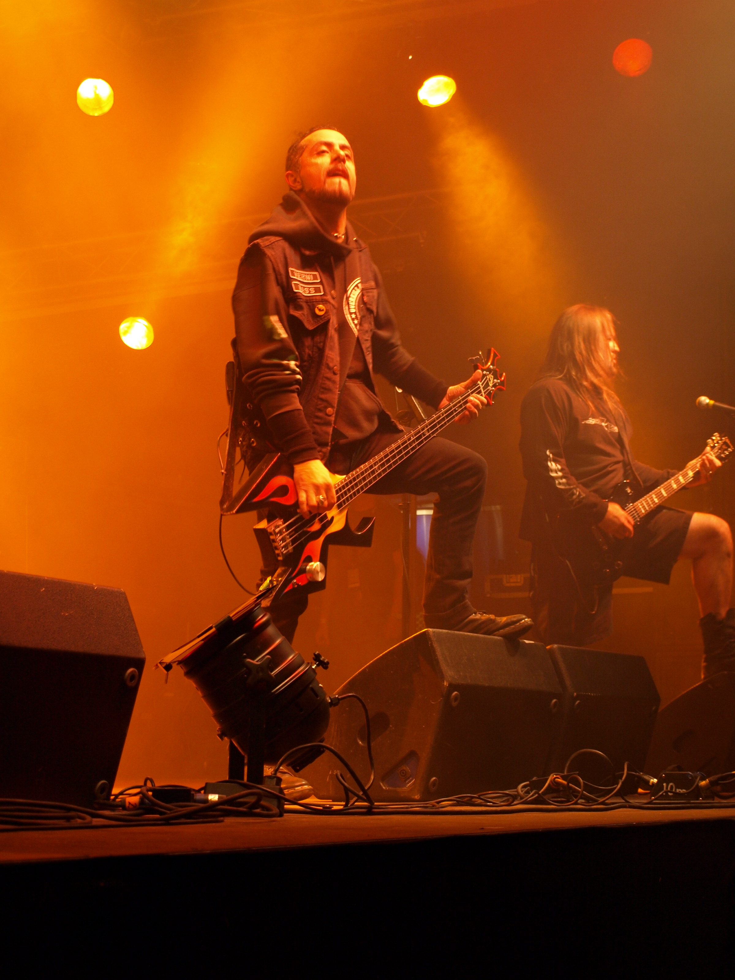 American thrash metal band Overkill live at Jalometalli 2008 in Oulu.